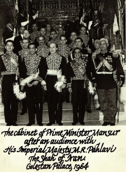 Cabinet of Prime Minister Mansoor at the Golestan Palace, Tehran, Iran. 1968